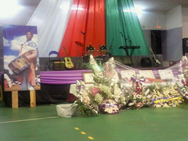 NATIONAL FUNERALS OF RAMILISON BESIGARA THE GREAT HIRA GASY OPERA ARTIST OF MADAGASCAR